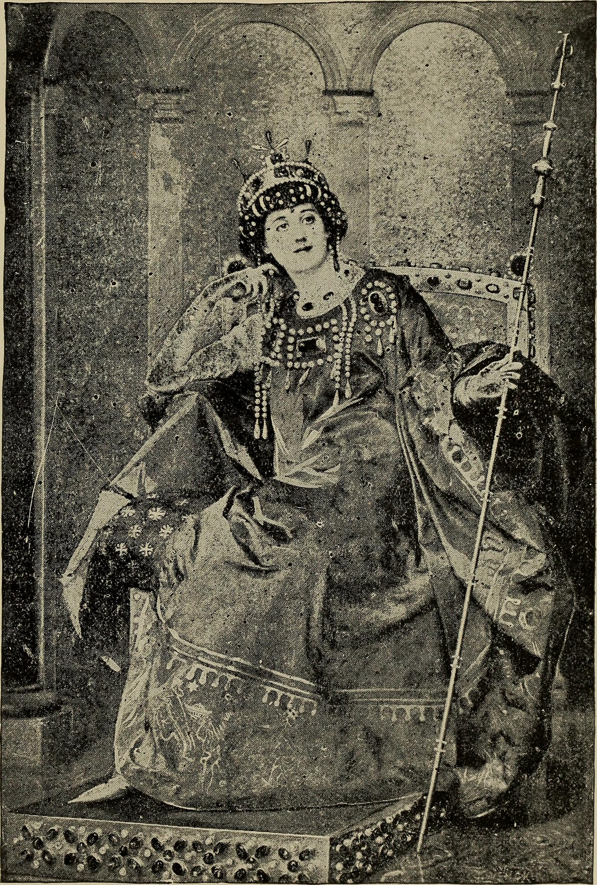 Basilissa, Joseph Wencker Title: The World's Columbian exposition, Chicago, 1893 Year: 1893 (1890s) Authors: White, Trumbull, 1868-1941 Igleheart, William, (from old catalog) joint author Subjects: World's Columbian Exposition (1893 : Chicago, Ill.) Publisher: Philadelphia and St. Louis, P.W. Ziegler & co Text Appearing Before Image: THE OPEN SEA. WalterL. Dean (U. S.). FINE ARTS. 349 of Comparative Sculpture, in the Trocadero Palace In Paris. Text Appearing After Image: BASILISSA. Joseph Wencker (France). These casts show portions of the facades of churches and cathedrals,grand portals, beautiful galleries, altars, statues, columns, capitals. OD FINE ARTS. etc. They are as perfect as the highest degree of French art andskill can make them, even the time-worn appearance of the originalsbeing faithfully reproduced. These replicas are not reduced Insize, and consequently some of them are very large; one, 41 x 24feet, shows a portion of the Church of St. Giles; one, 20 x 36 feet,is from the gallery of Limoges Cathedral; one from the Portal ofthe Virgin, from Notre Dame, Paris, is 18 x 25 feet, etc. The architecture and sculp-tures represented be-gin with the art era ofthe twelfth century,and are followed downto the seventeenthcentury era continu-ously, the exampleschosen as follows:The Cathedrals ofChartres and Bouro^es(i2th) ; Paris, Rhelms,Amiens, Lyons, RouenandLaon (13th) ; Bor-deaux, Nantes andSens (14th) ; Mans(15th); Beauvals, Li-moges and Tour